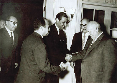 Leader of the Soviet Union Nikita Khrushchev meeting Foreign Minister of Iraq Adnan al-Pachachi and the GPRA's Foreign Minister, Belkacem Krim